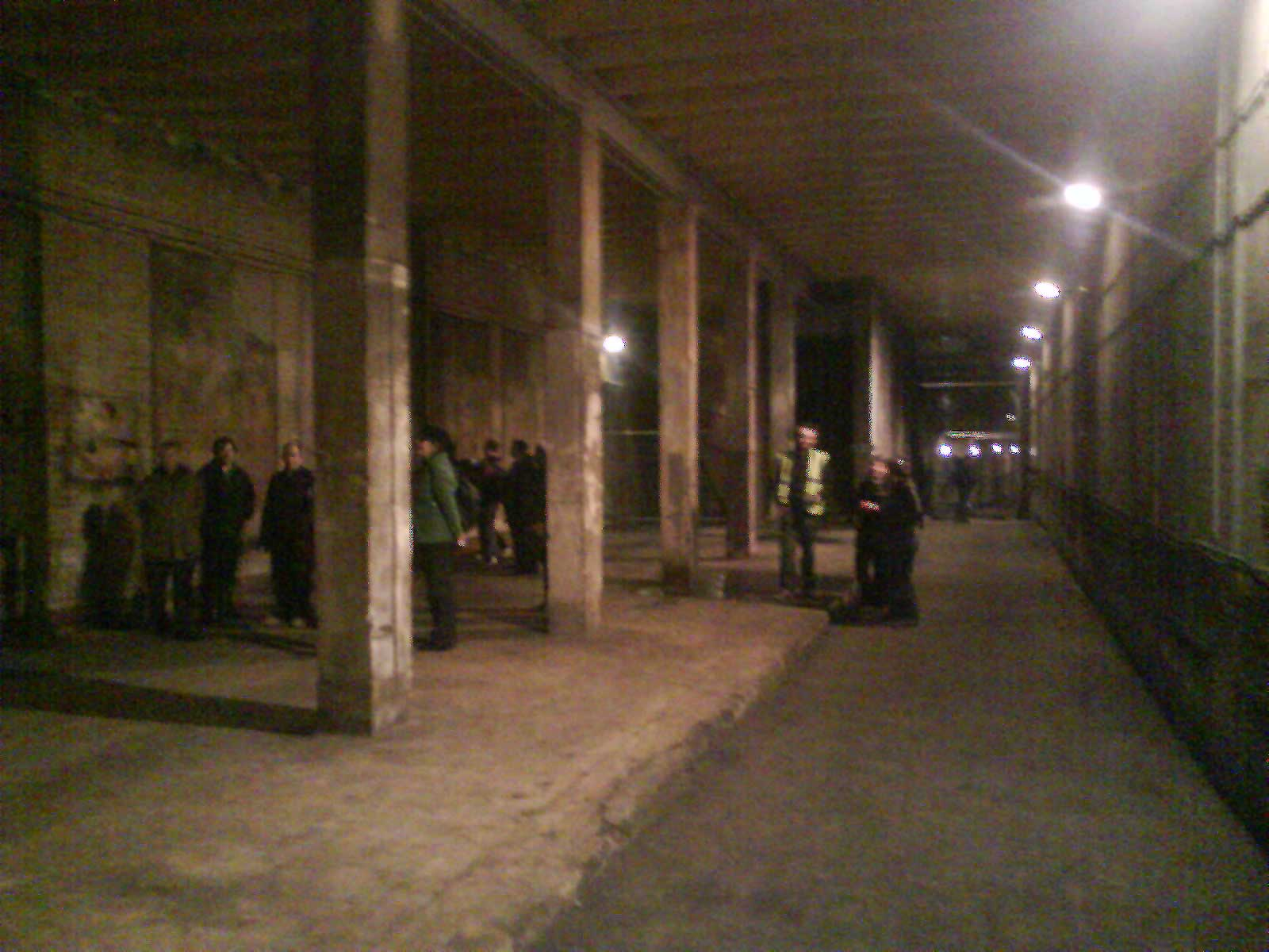 The disused Holborn Tram Station in London, UK, in the Kingsway Tram Tunnel